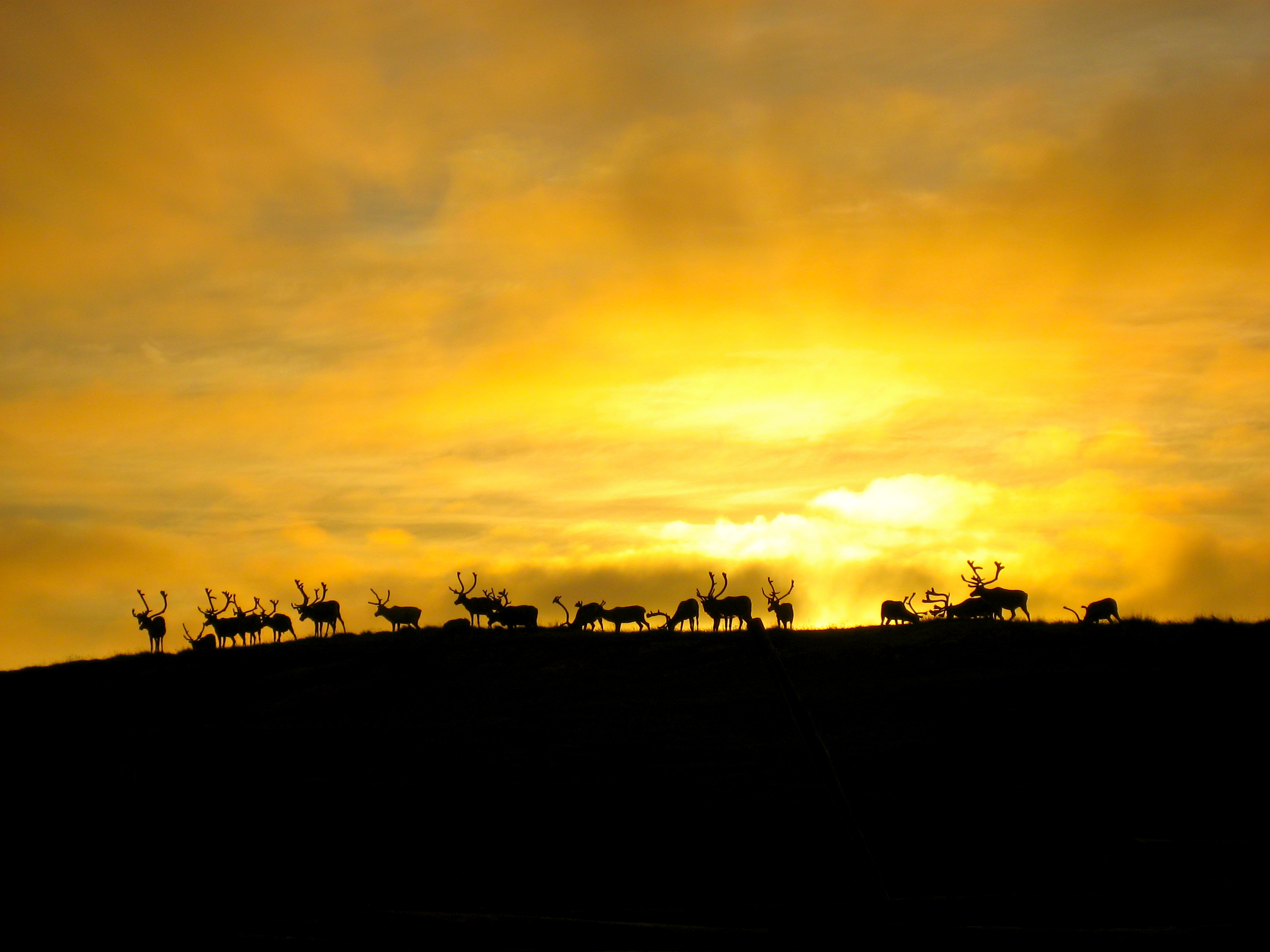 Reeindeer against the midnight sun. Original caption: Taken on a nightwalk in Pykeija, Norway